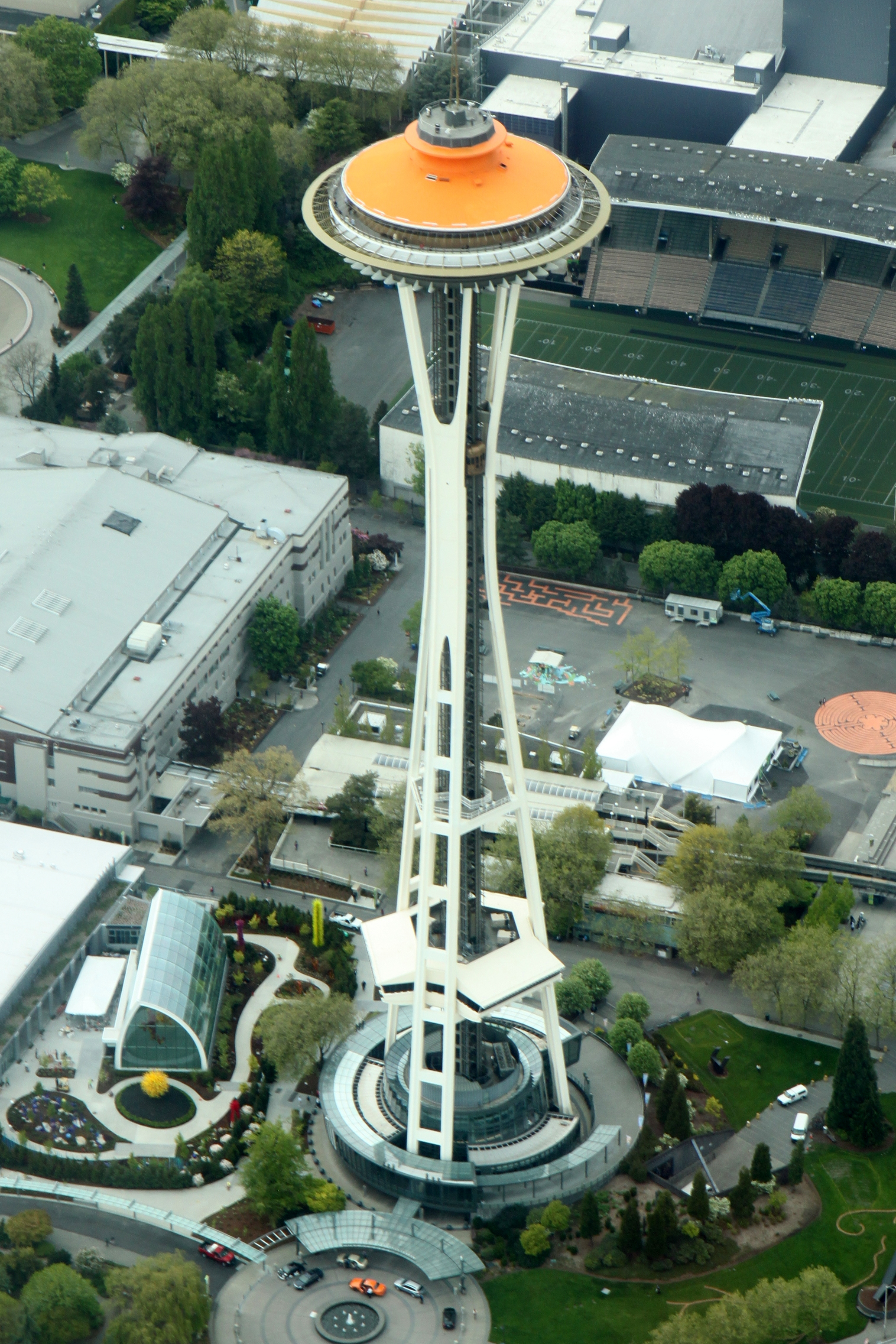 An aerial view of the Space Needle painted gold for its 50th anniversary celebration.